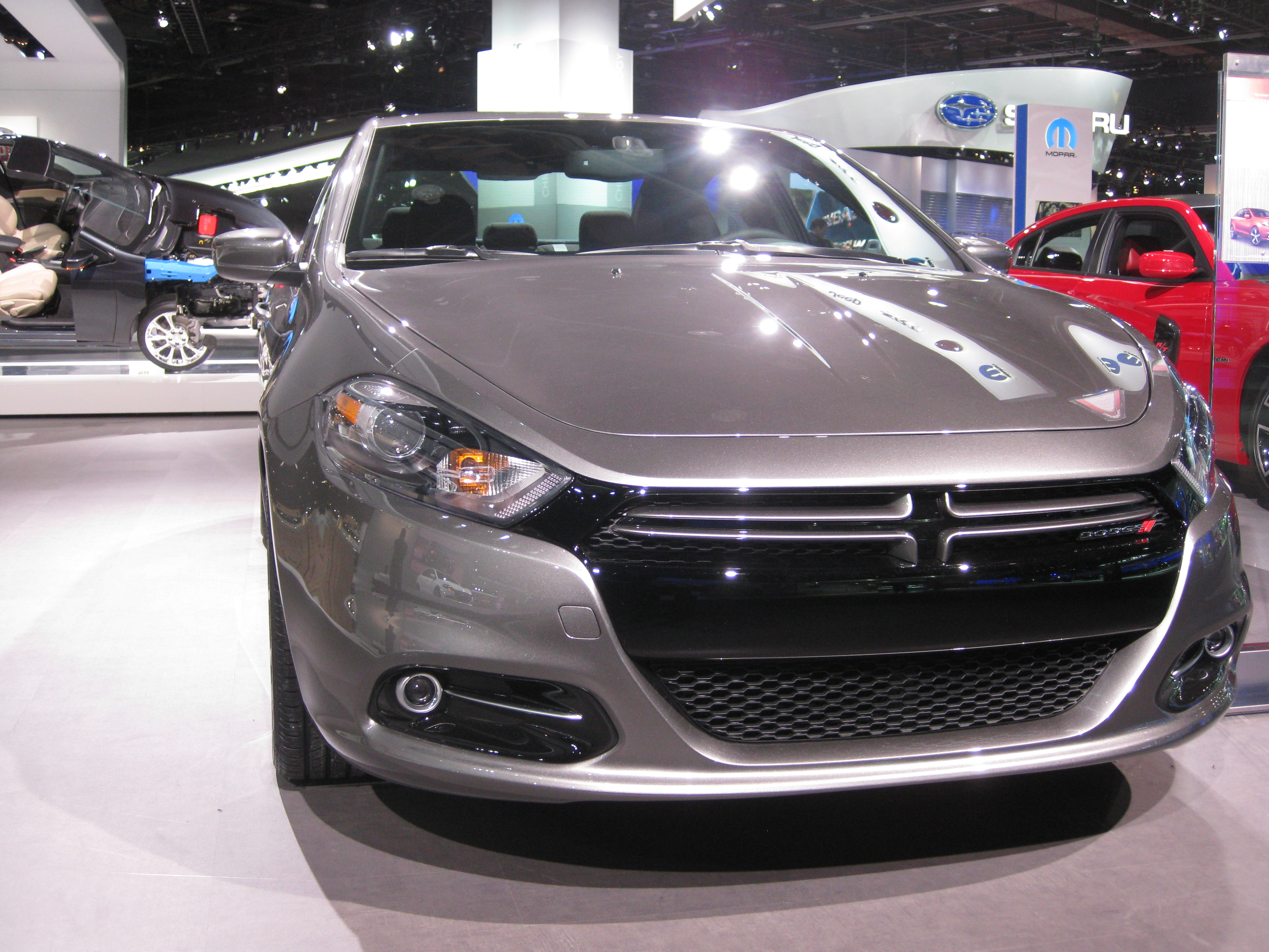 For more info and images please check